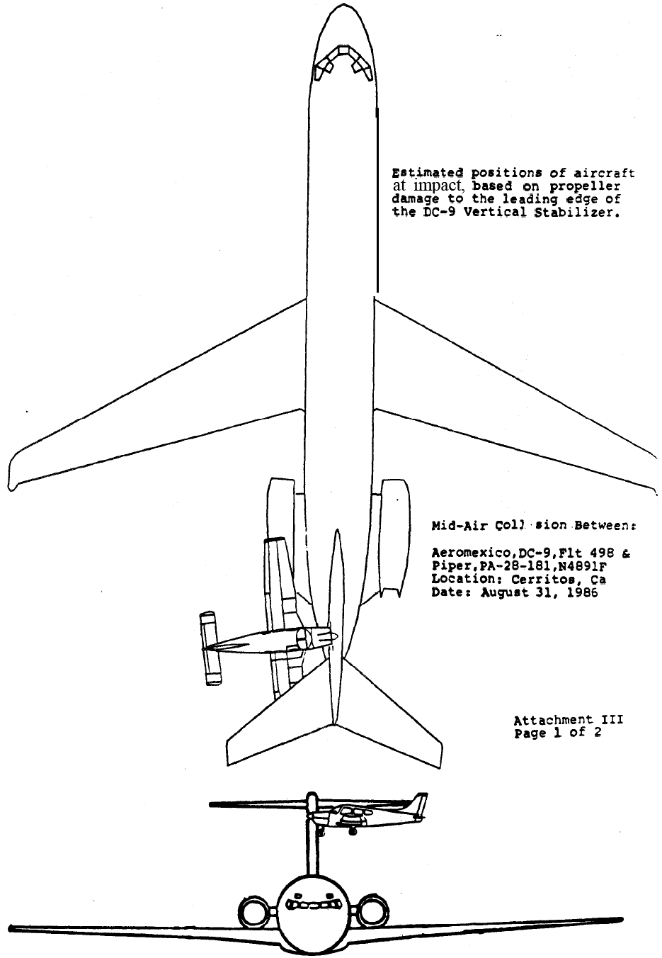 NTSB images showing approximate impact point of the Piper on the DC9